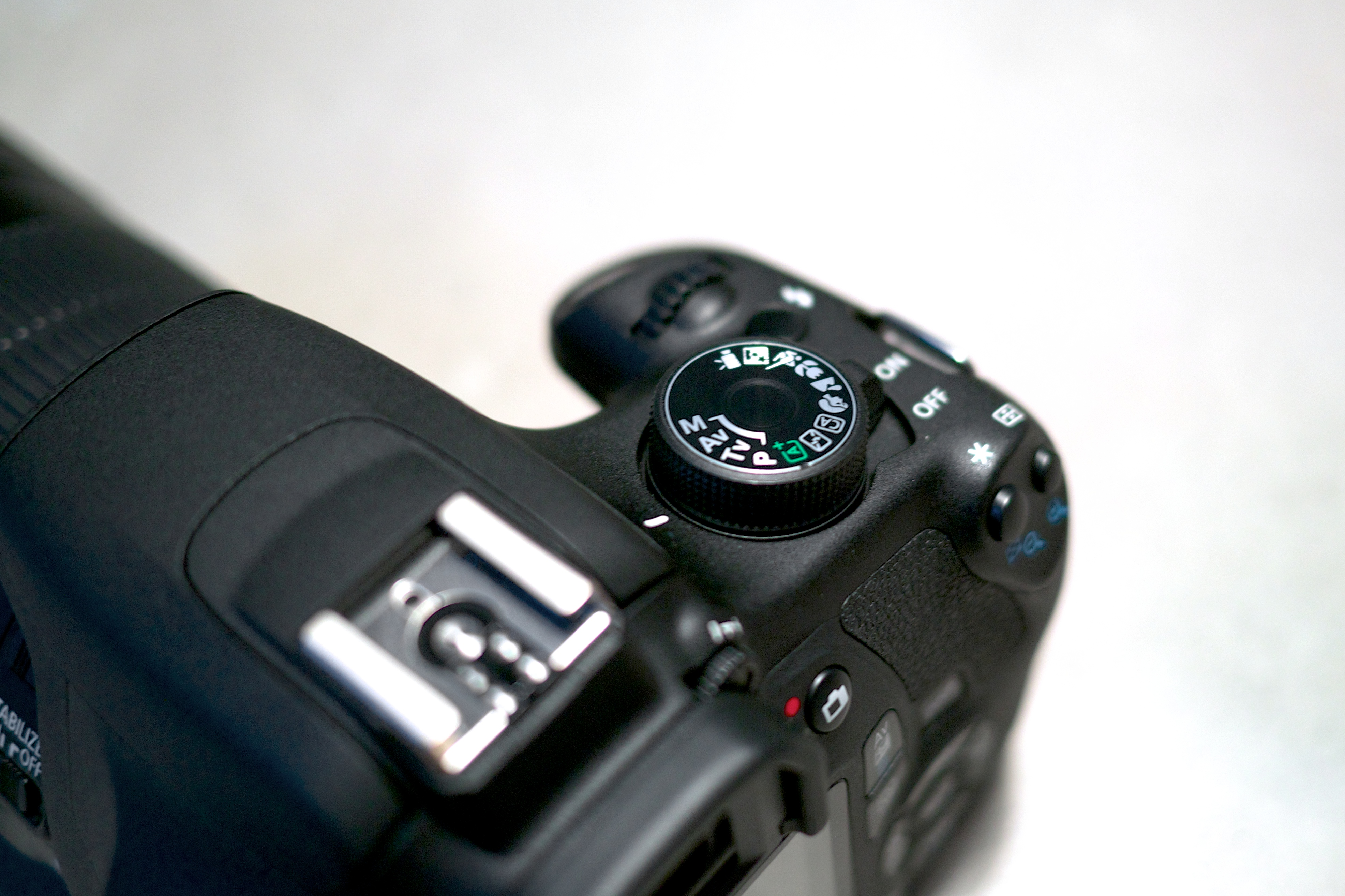 Canon EOS 1200D